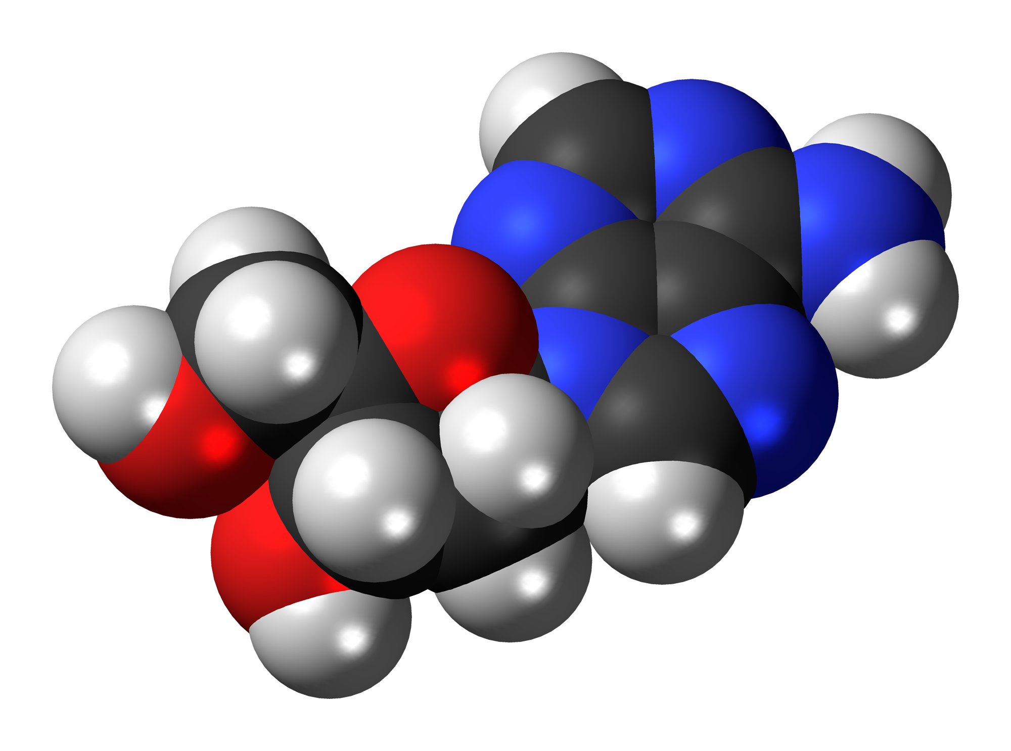 Space-filling model of the deoxyadenosine molecule, a deoxyribonucleoside derived from adenine. Colour code: Carbon, C: black Hydrogen, H: white Oxygen, O: red Nitrogen, N: blue